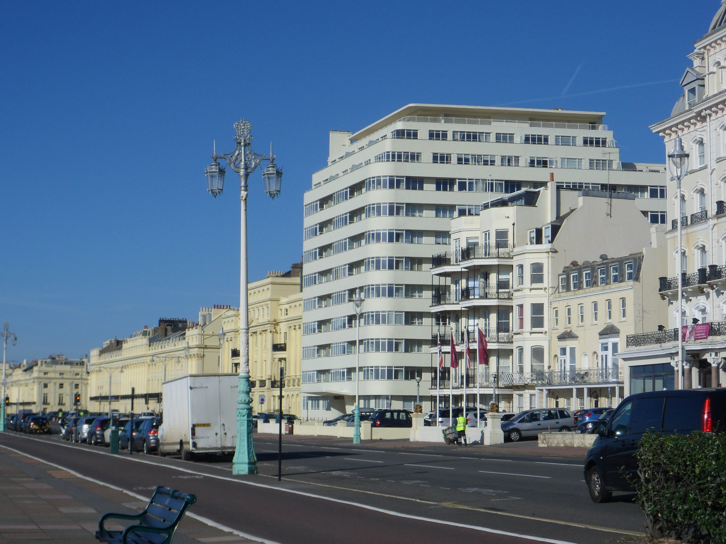 Embassy Court, junction of Kings Road and Western Street, Brighton, City of Brighton and Hove, England. A well-known Modernist landmark on the seafront on the border of Brighton and Hove, designed by Wells Coates in 1935–36. Listed at Grade II* by English Heritage (NHLE Code 1381642)